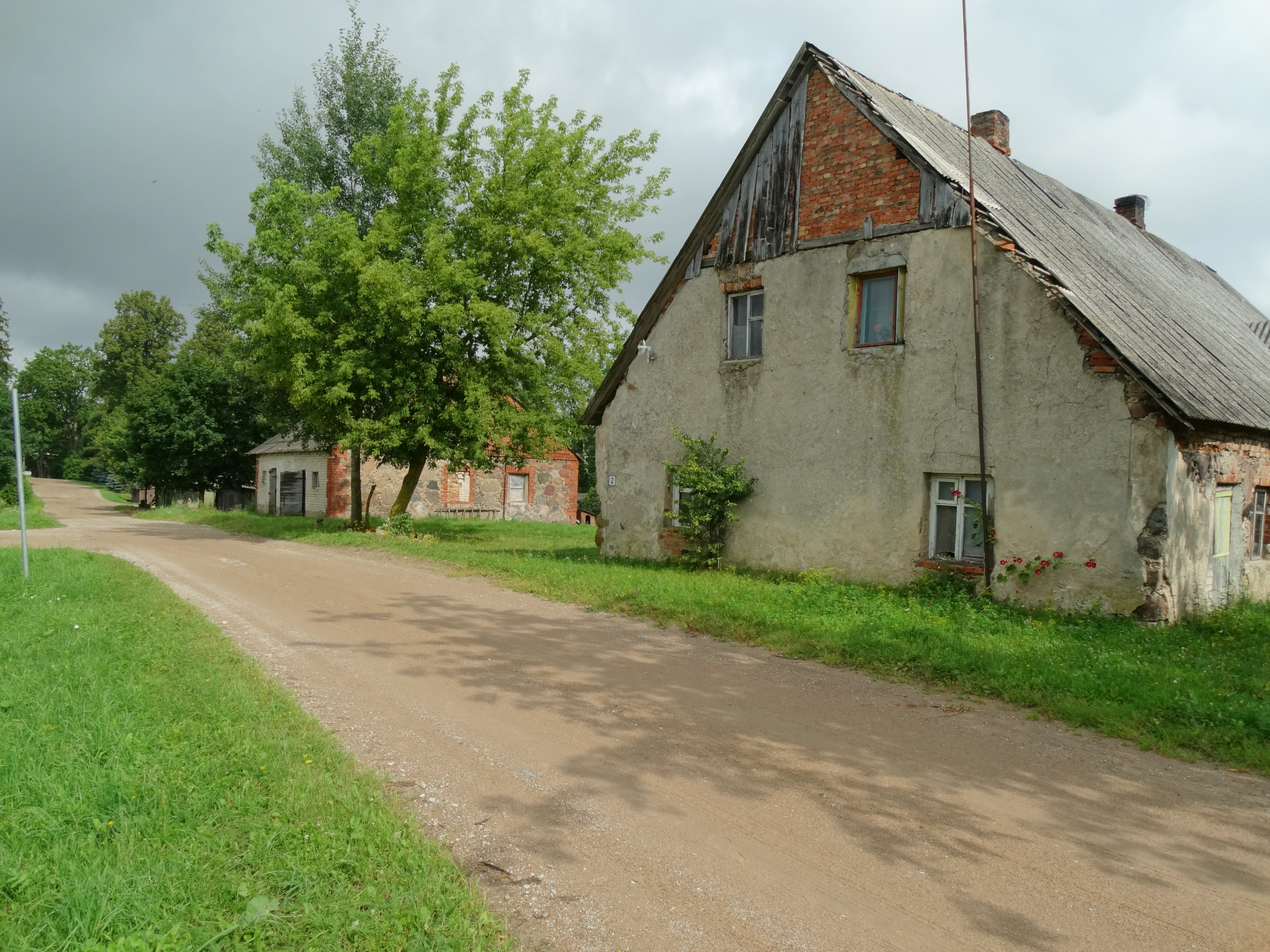 Dabikinė, old building, Akmenė district, Lithuania